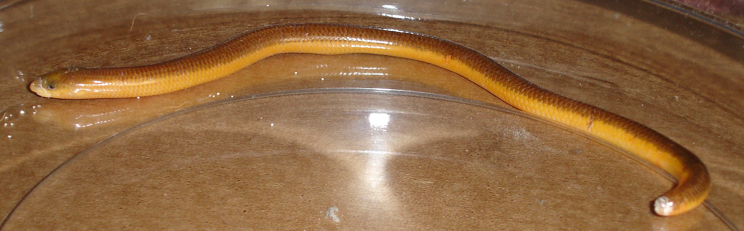 Acontias percivali, also known as Percival's Legless Lizard, Tanzanian Legless Lizard, and Percival's Lance Skink. Original photo by Jeremy Britton.